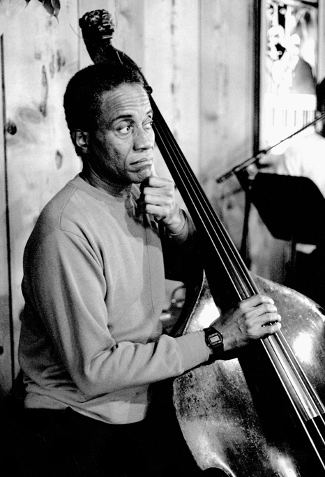 Richard Davis at Bach Dancing & Dynamite Society, Half Moon Bay CA, with John Carter, Andrew Cyrille and Bobby Bradford 2/28/87. Photo by Brian McMillen /